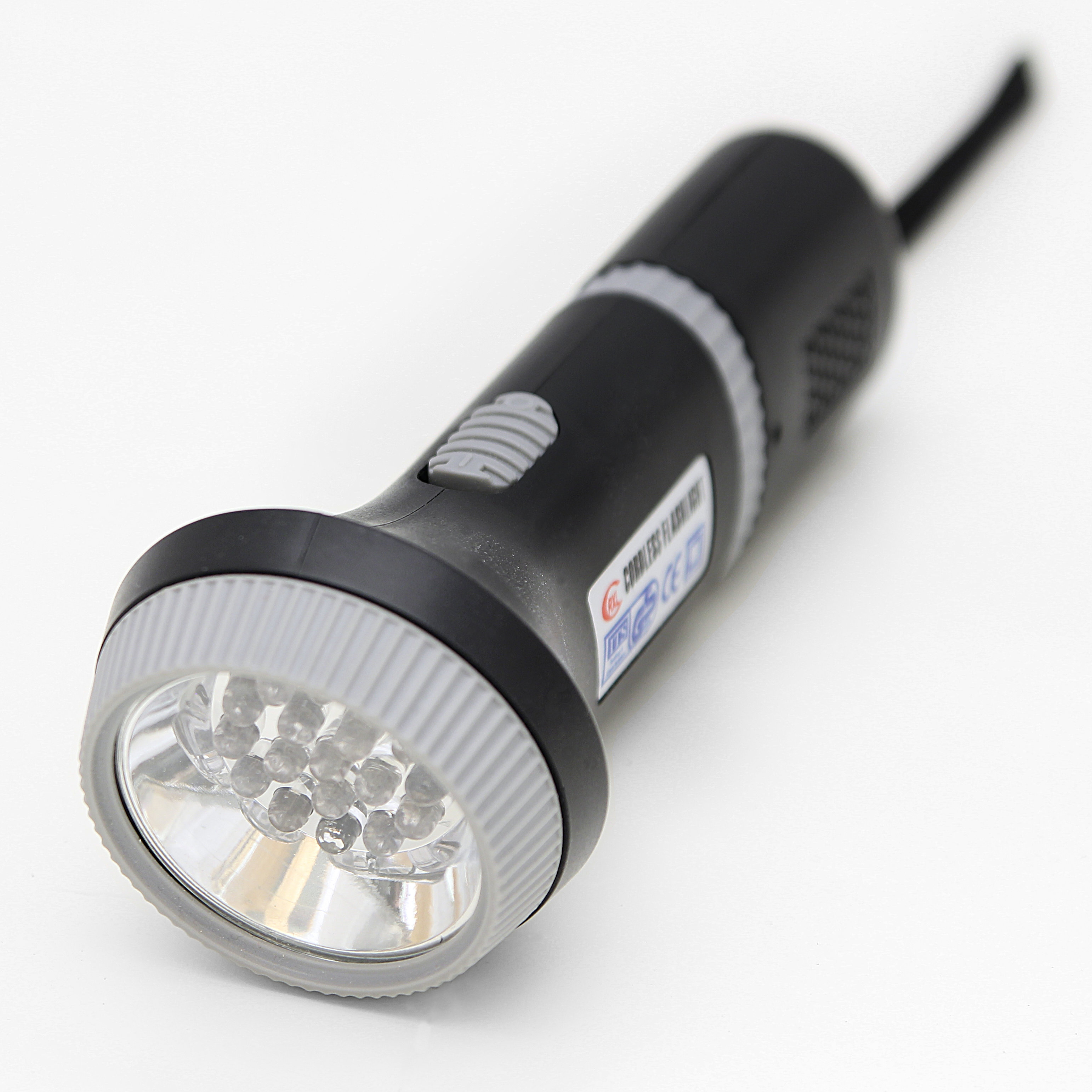 "RXL Cordless flashlight" Model: "DD2B", 3.6V, 1.2W, 0.5A LED flashlight. The flashlight has a removable battery at the end and could be charged by using an ordinary power socket-outlet. The picture was taken by User:PJ in October 18 2011 with the Canon EOS 550D camera and the Tamron 28-75 mm f/2.8 lens.